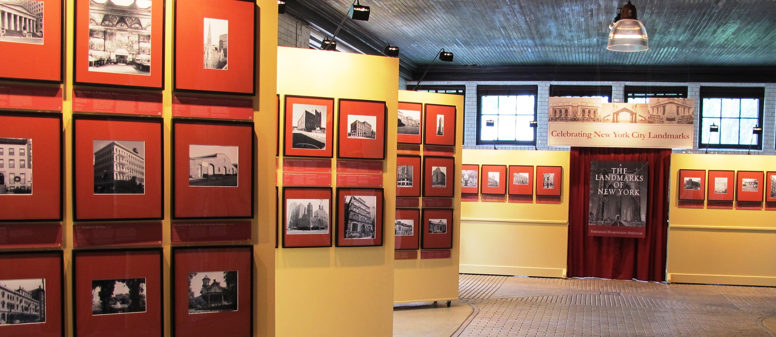 Past exhibits at the Jay Heritage Center have included "The Landmarks of New York," an architectural photo exhibit curated by preservation advocate Barbaralee Diamonstein-Spielvogel